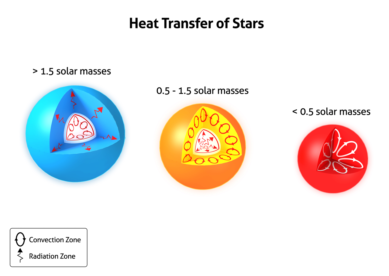 Types of heat transfer for different stars.